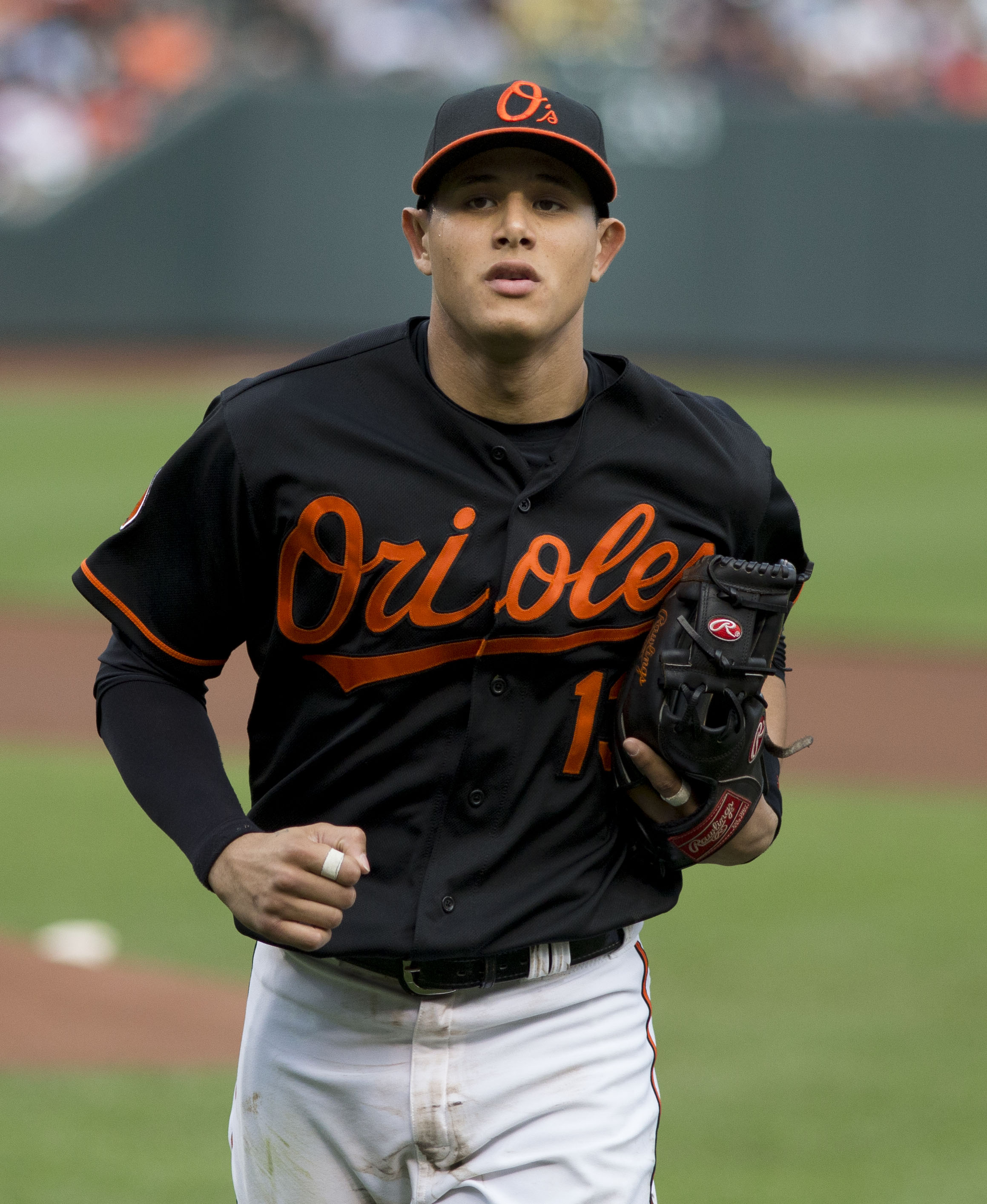 Manny Machado